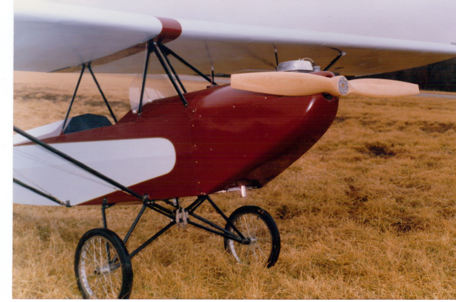 Front view of Aerotique Parasol